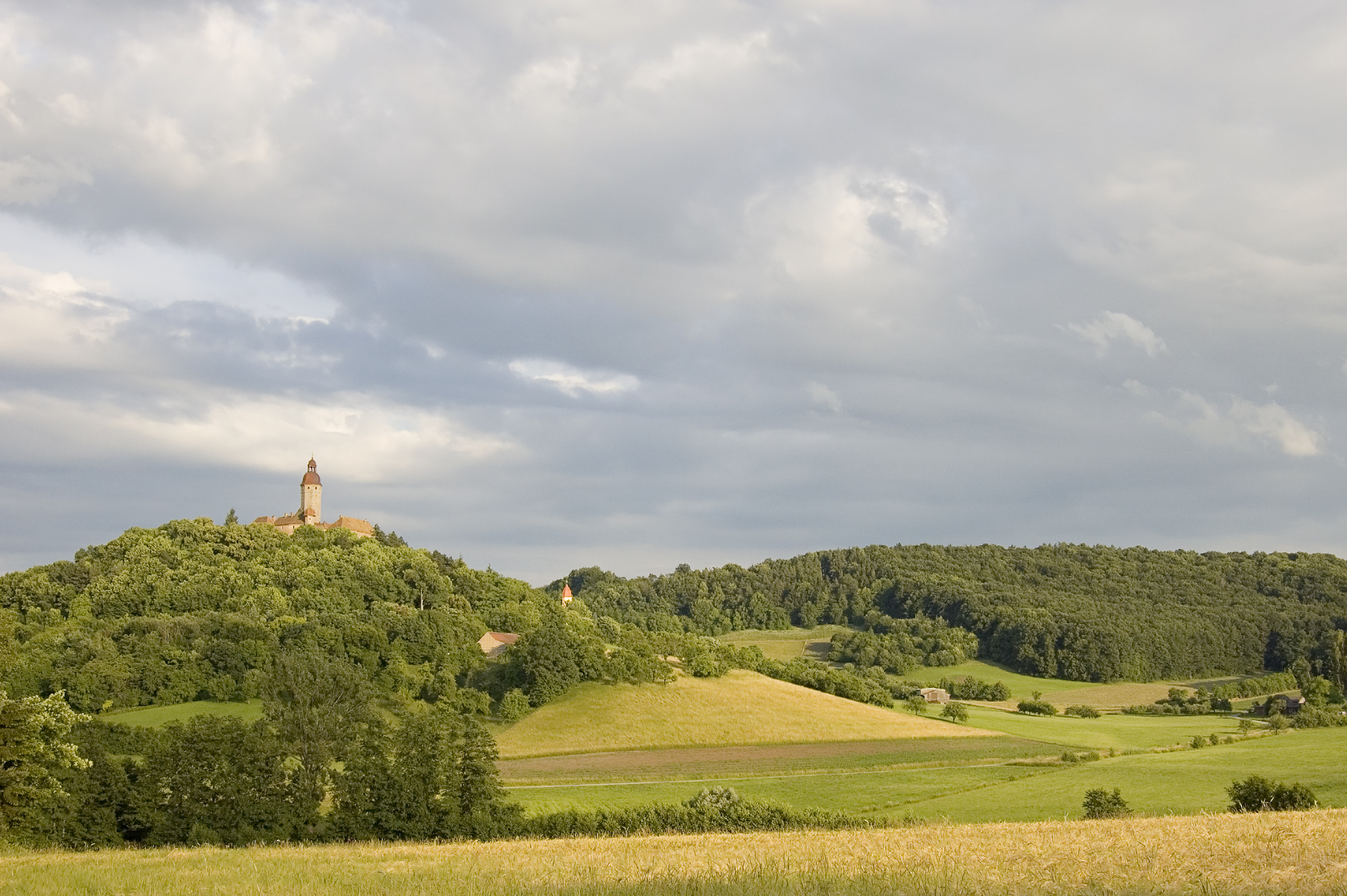 Landscape with Castle Virnsberg near Flachslanden, Germany